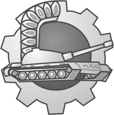 Armored troops branch insignia